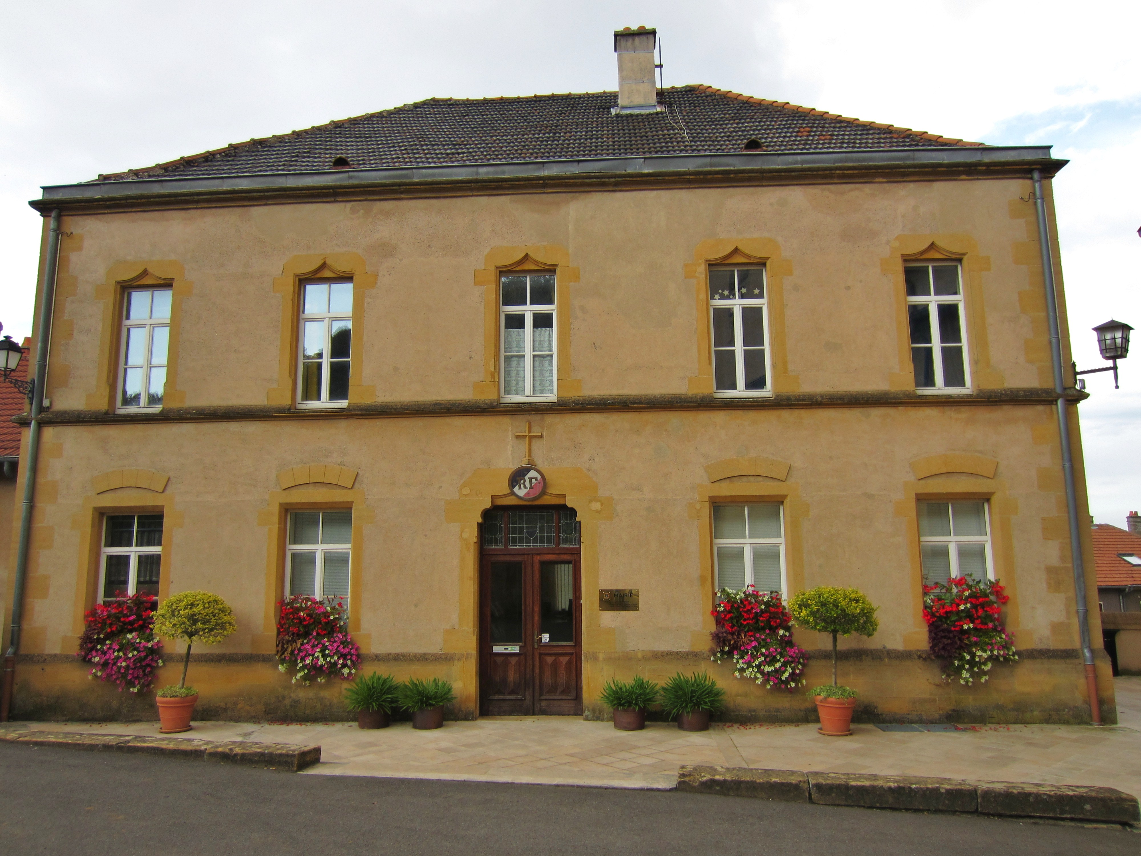 Description mairie Norroy Veneur Date3 September 2011Sourcemon appareil photoAuthorAimelaimePermission(Reusing this file) mairie Norroy Veneur